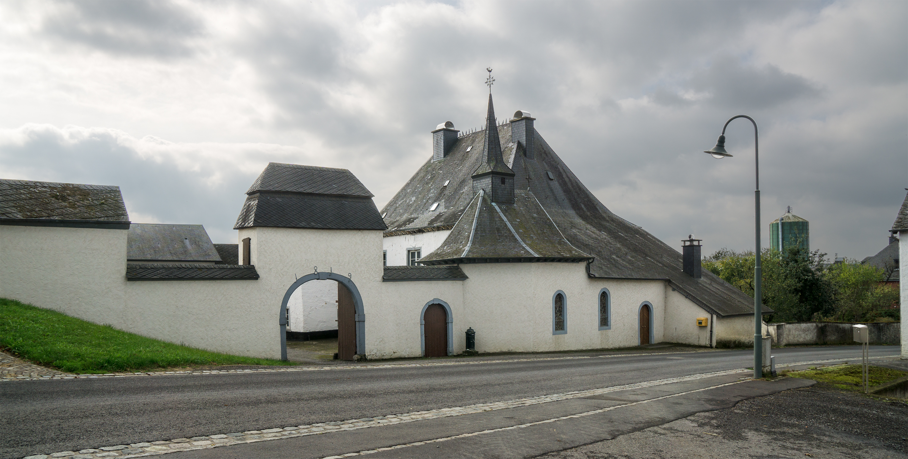 Chapel in Weiler near Hachiville